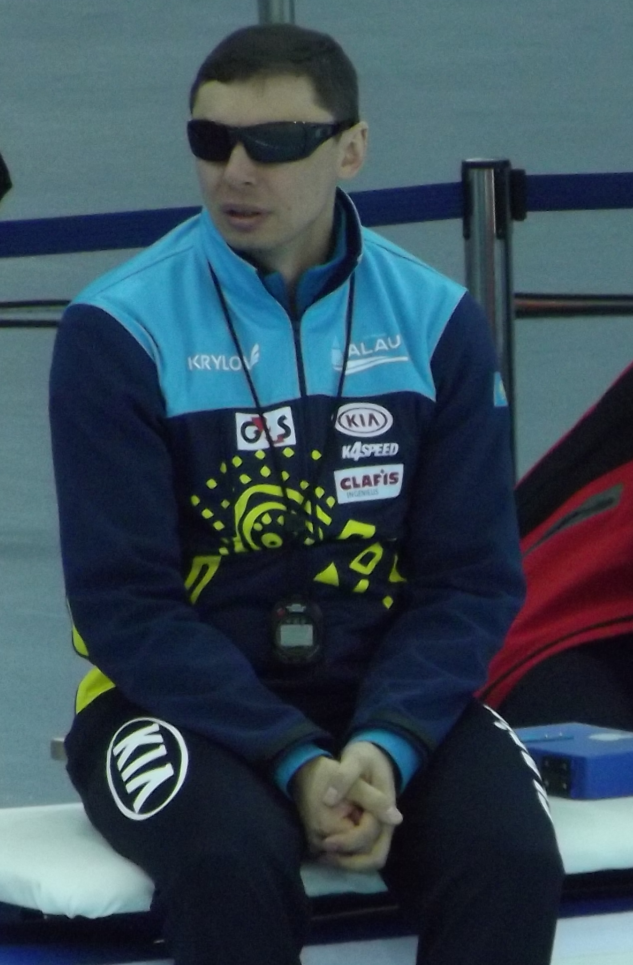 2013 World Single Distance Speed Skating Championships